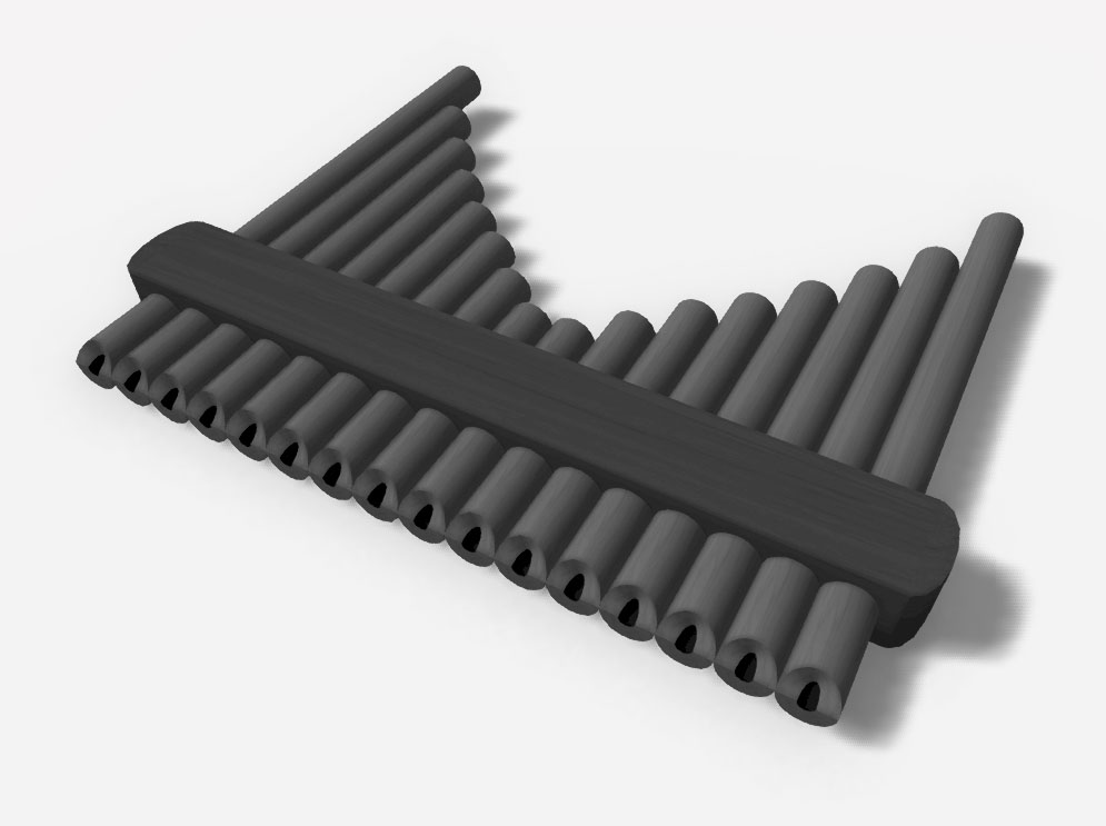 Example of paixiao (Chinese traditional music instrument)